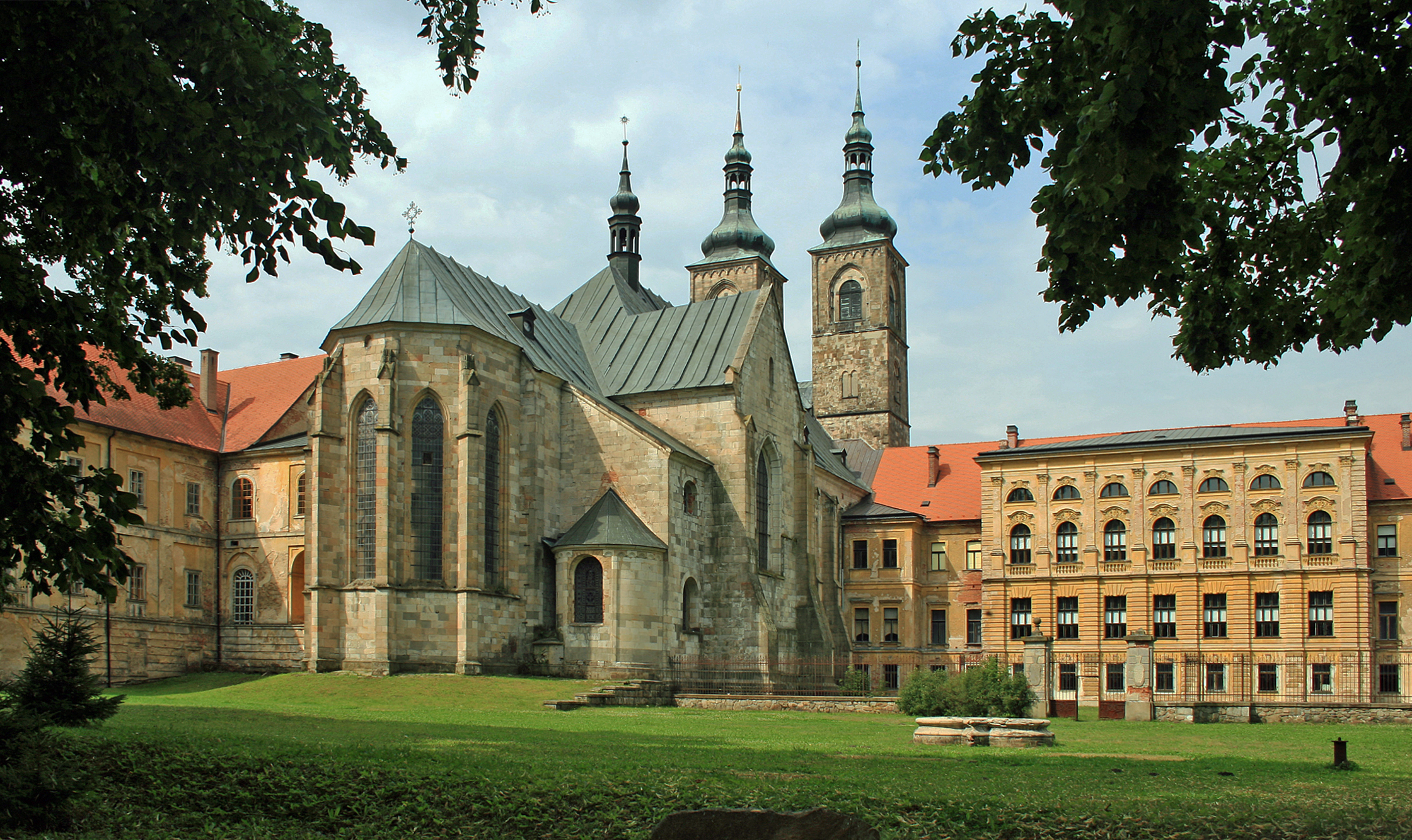 Premonstratensian monastery Teplá, west Bohemia Czech Republic